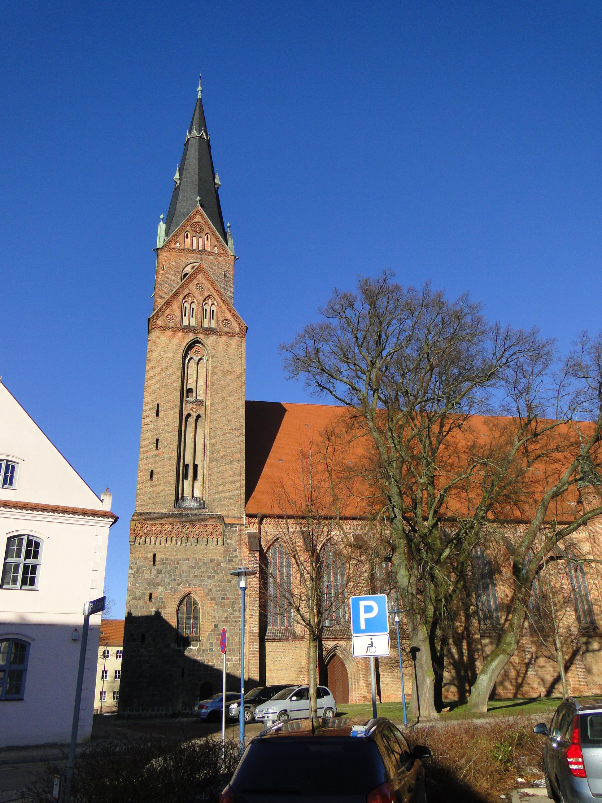 Church St. Marien in Friedland, district Mecklenburg-Strelitz, Mecklenburg-Vorpommern, Germany